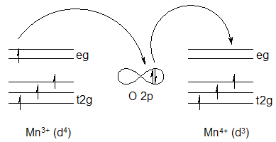 Double exchange mechanism between Mn(+3) and Mn(+4) ions, through oxo bridge.